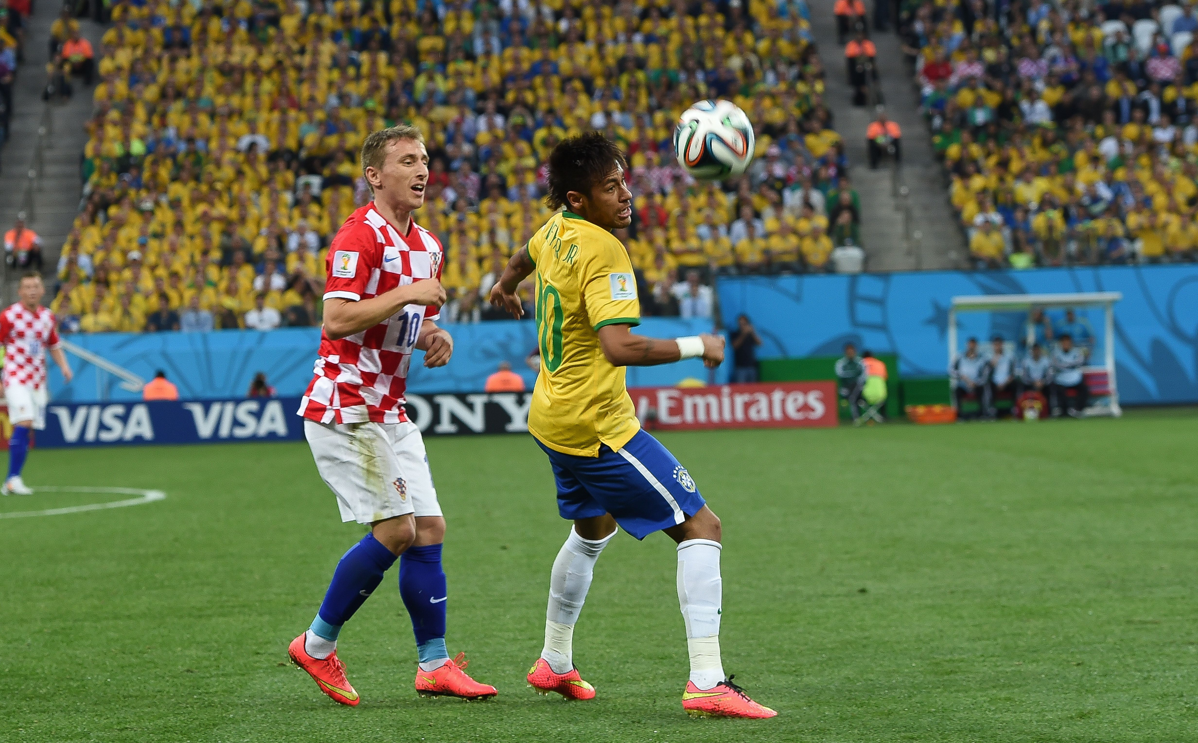 Brazil and Croatia match at the FIFA World Cup 2014-06-12